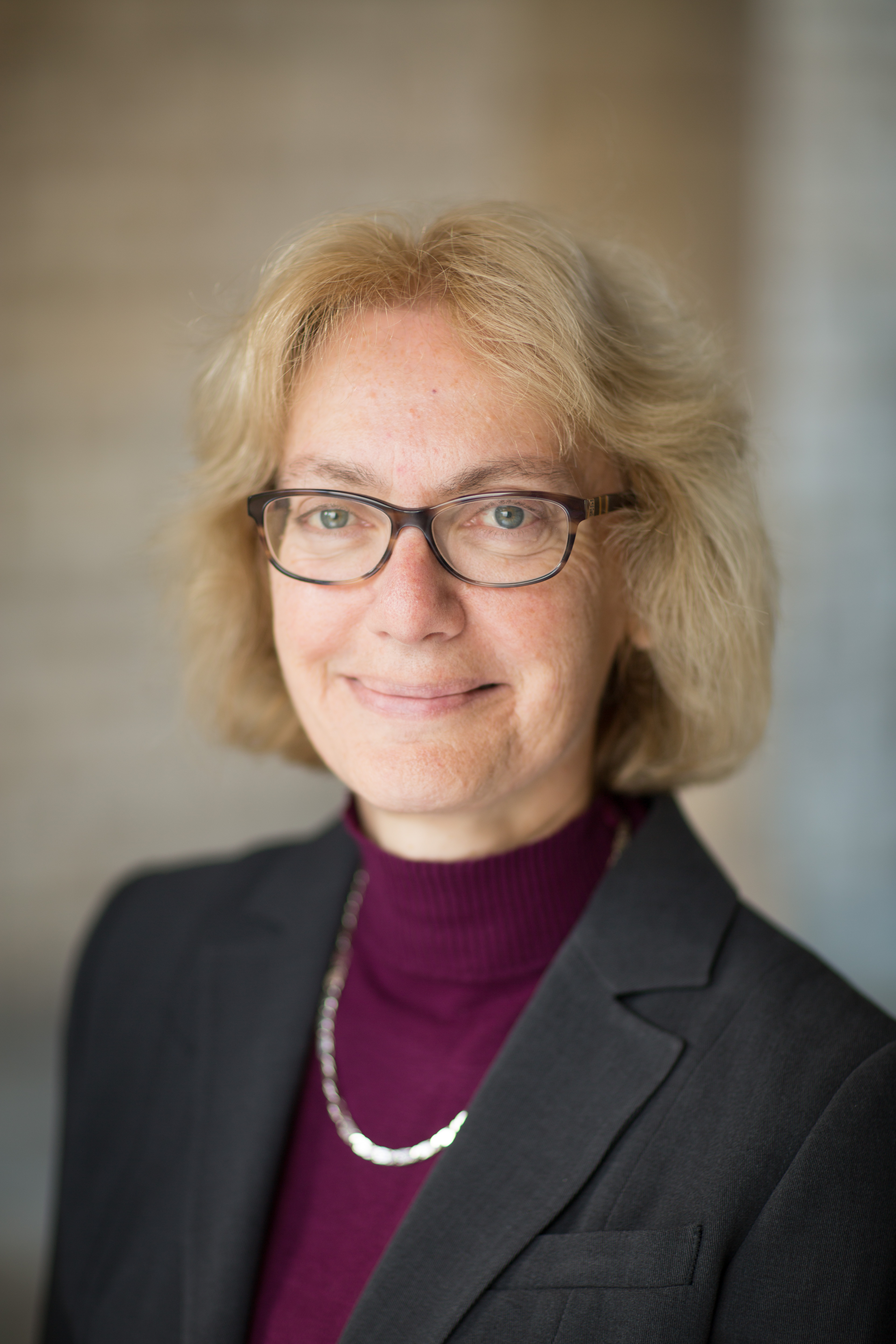 Headshot of Carole Souter